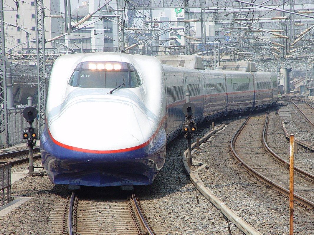 JR East E2 series shinkansen set N11 approaching Tokyo Station on the Nagano Shinkansen Asama 514 service from Nagano